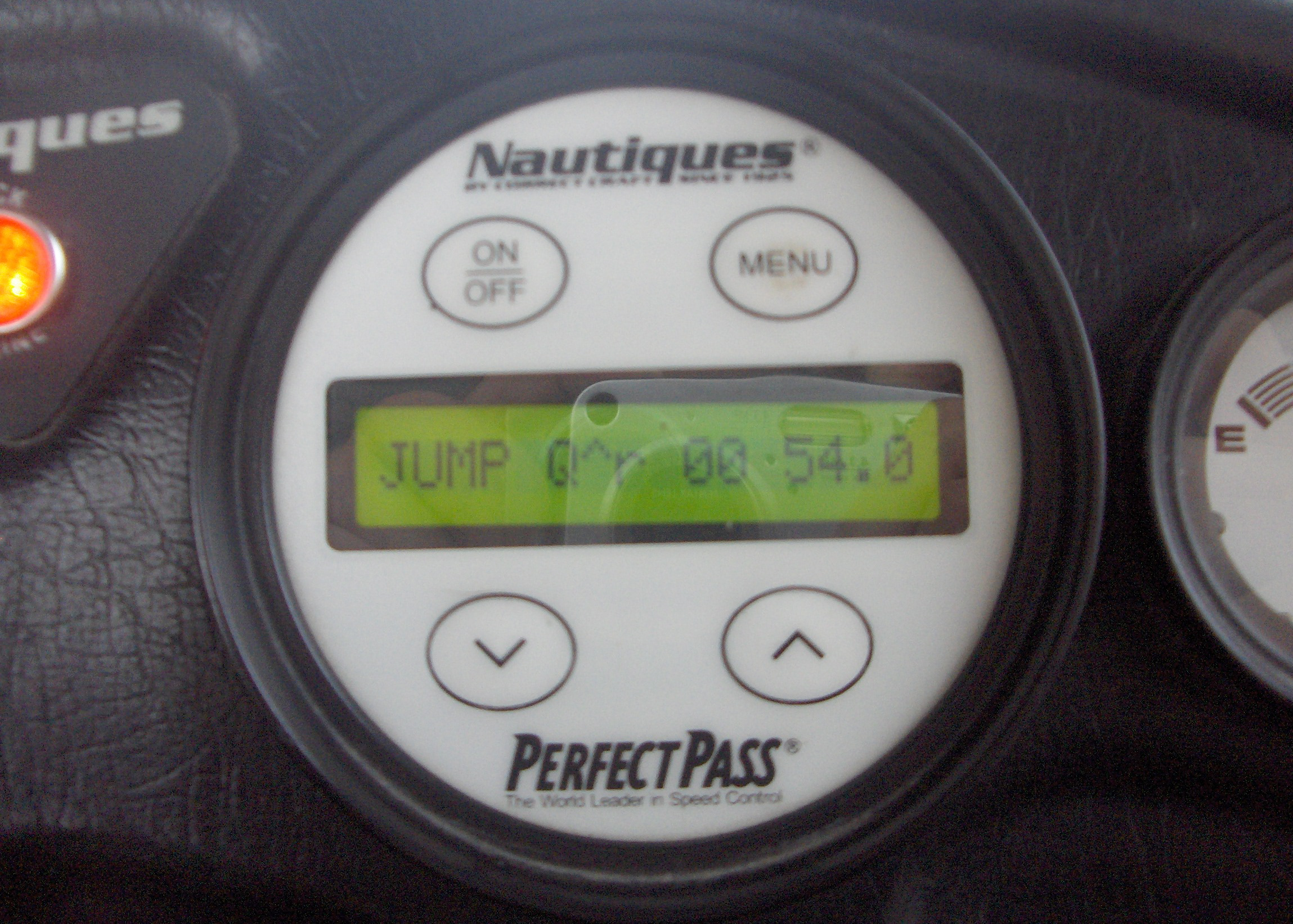 A picture of the 2nd generation of the Perfect Pass system, a water ski boat speed control.